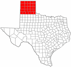 Map of Swisher County Texas modified to show entire Panhandle